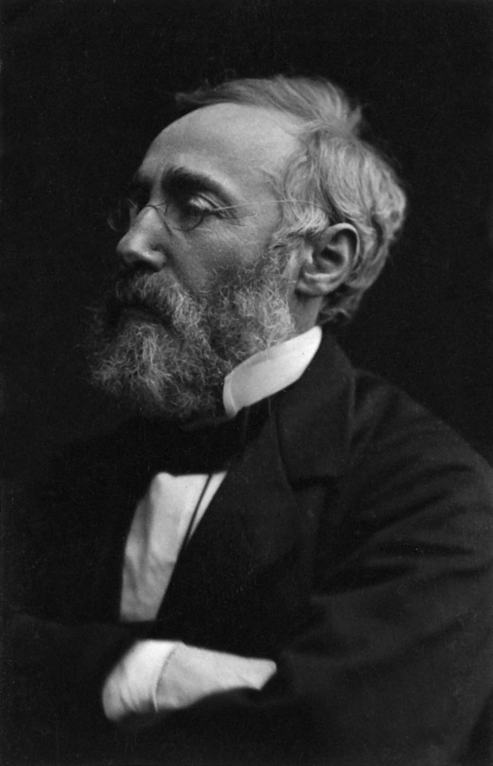 Jozef Israëls